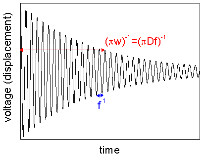 temporal voltage ring-down in a QCM ring-down experiment